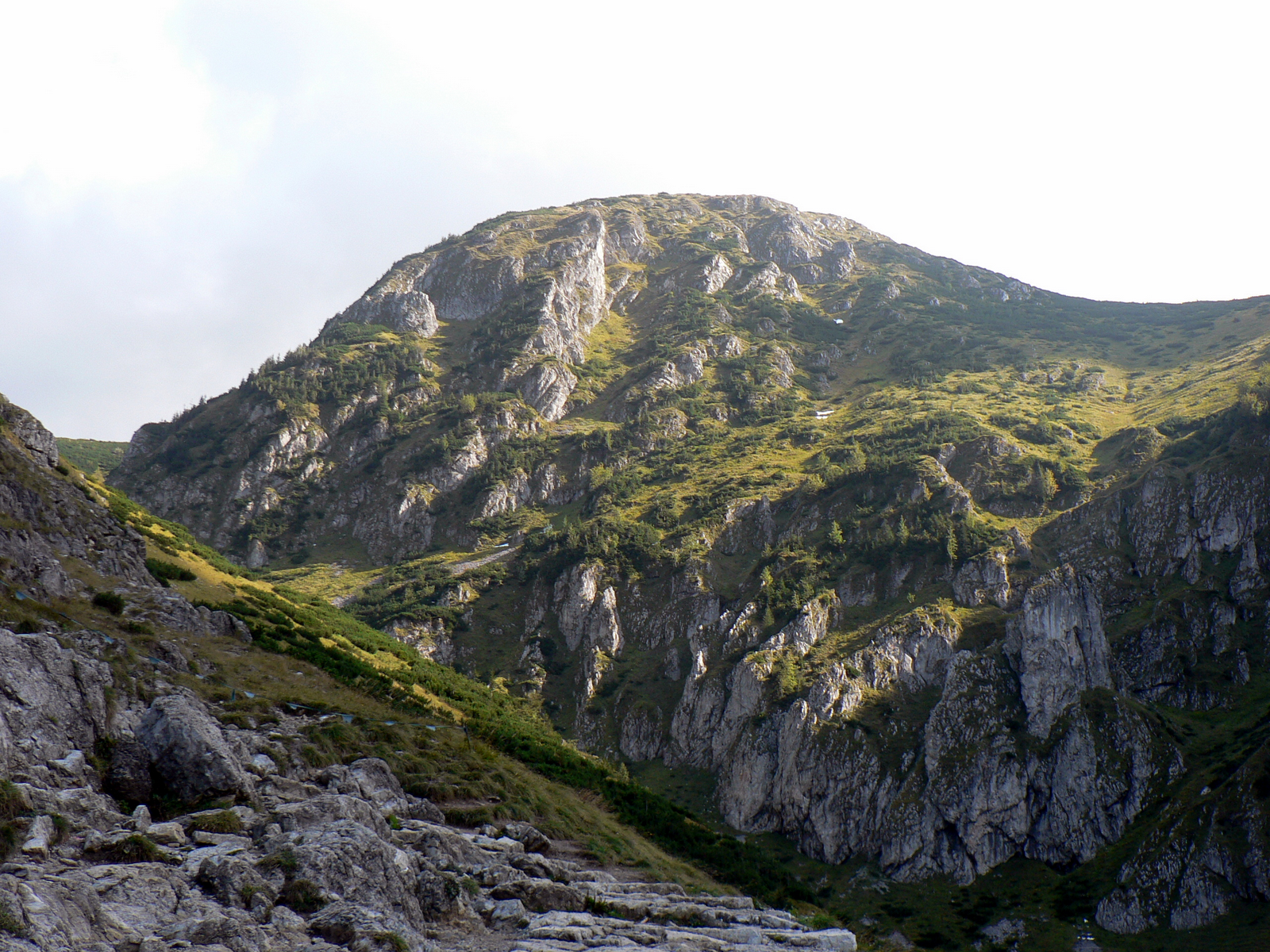 Kopa Magury from Jaworzynka Valley